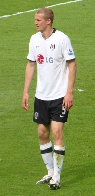 Brede Hangeland of Fulham F.C. against Aston Villa F.C., at Craven Cottage This file has been extracted from another file: John Carew and Brede Hangeland.jpg